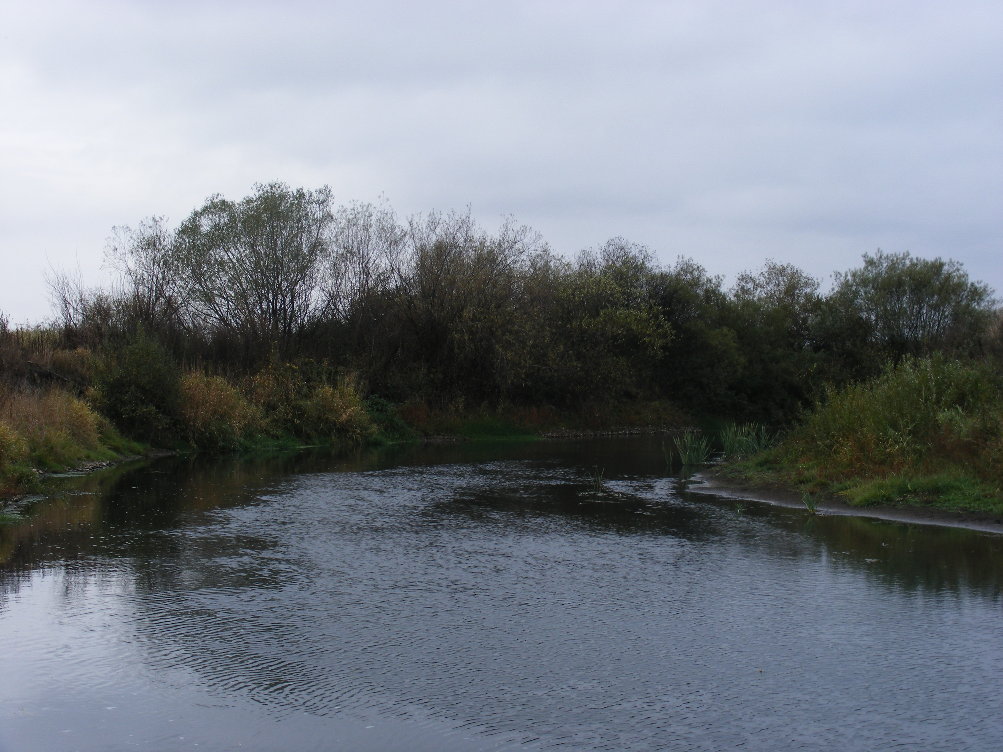 The Maros river near Ditró (Ditrău)